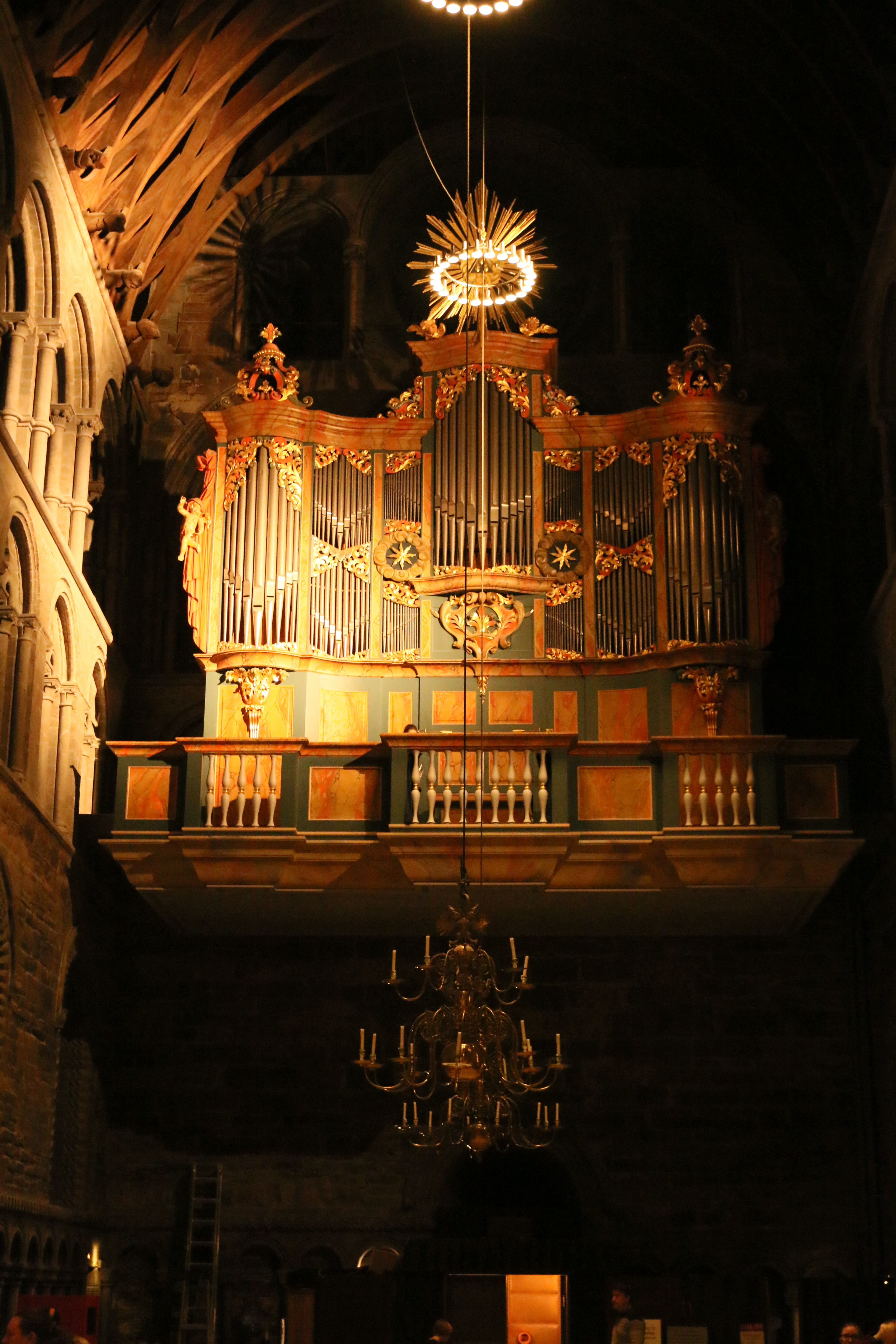 Nidaros Cathedral